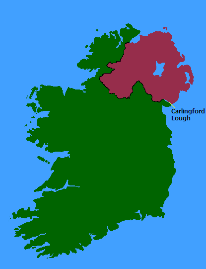 Map showing location of Carlingford Lough in Ireland